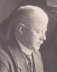 Valter Bratt (1868-1960), Örebro, Sweden. Editor of Nerikes Allehanda.